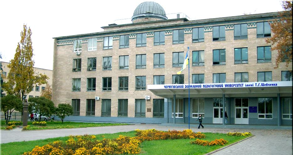 Central building of Chernihiv State Pedagogical University